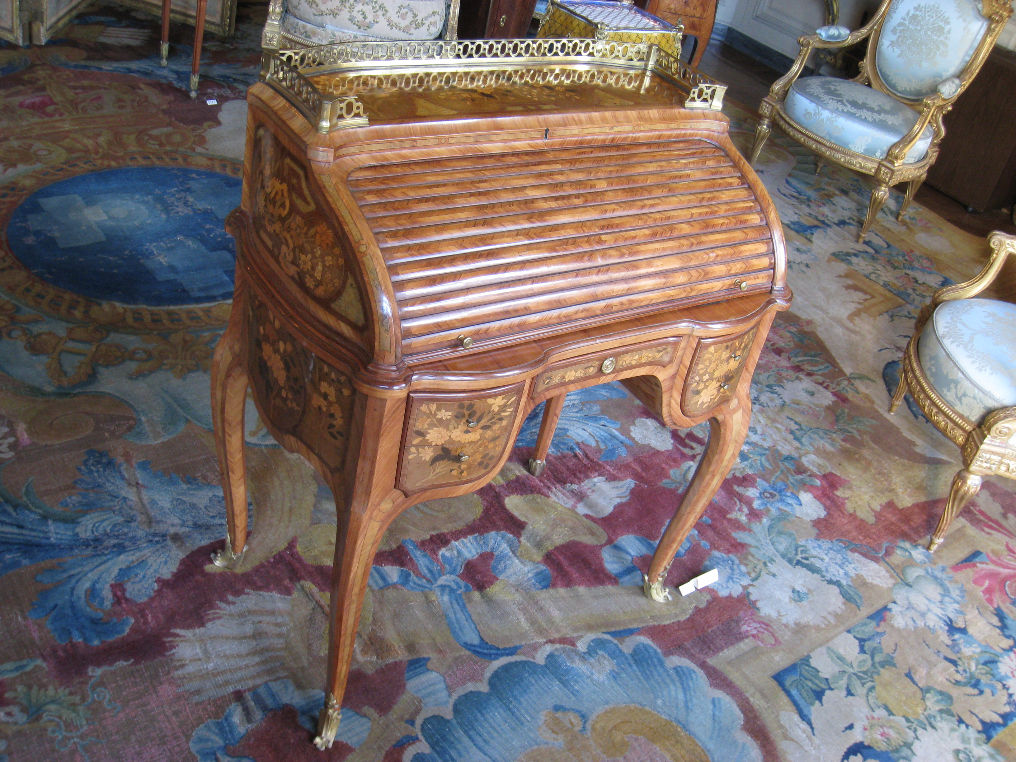 Musée Nissim de Camondo, Paris, France - Secrétaire à cylindre by Jean-François Oeben (circa 1775). The original work is old enough so that copyright (if any) has long since expired. The museum imposed no restrictions on photography (except prohibiting flash) in writing and when I explicitly asked; thus the original image appears free of copyright restrictions.